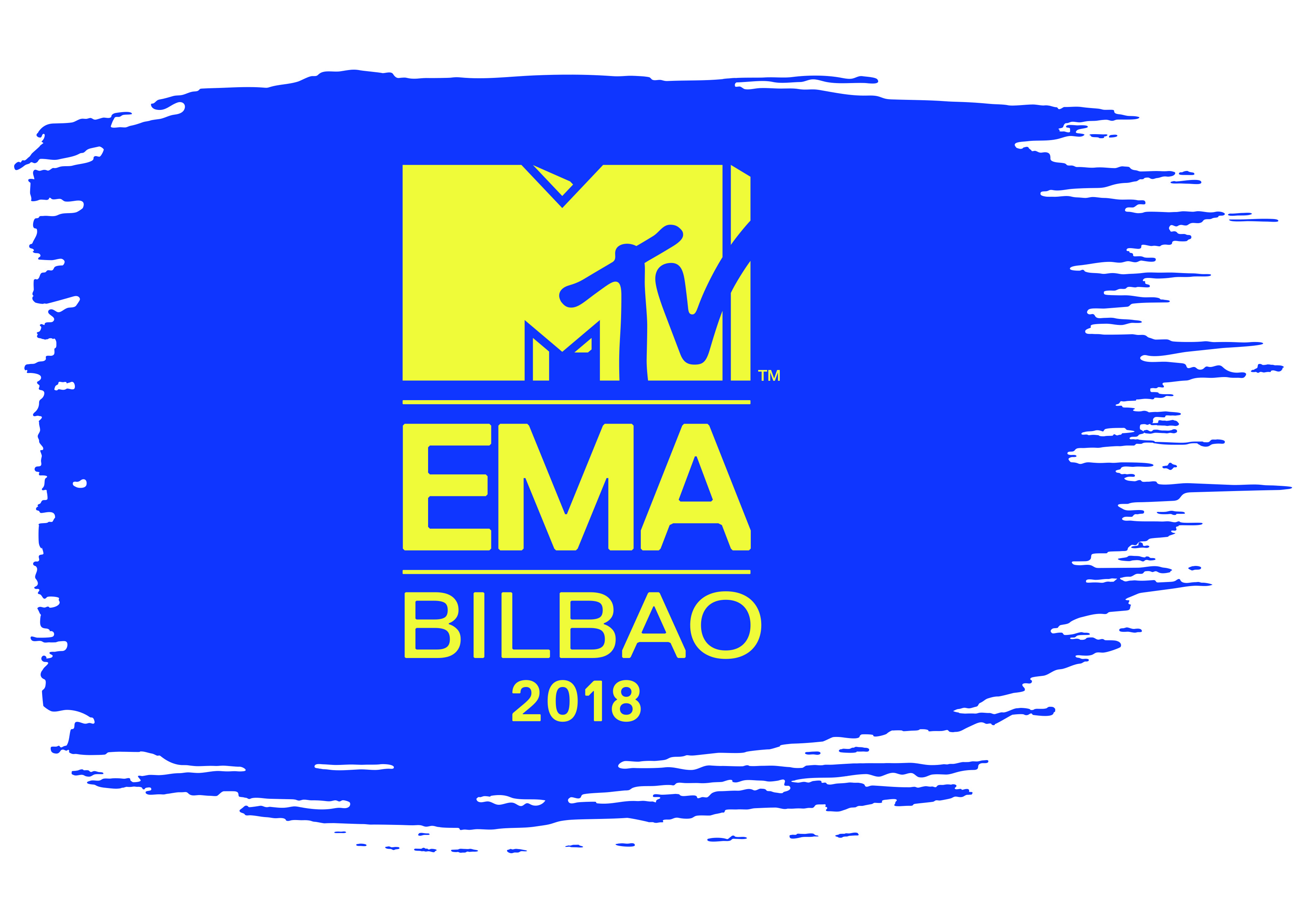 Official logo of this year MTV EMAs